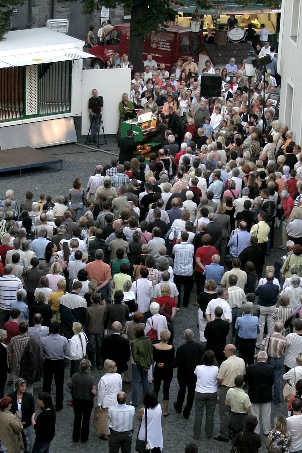 OrgelArena 2008 in Greiz, Thüringen, Germany